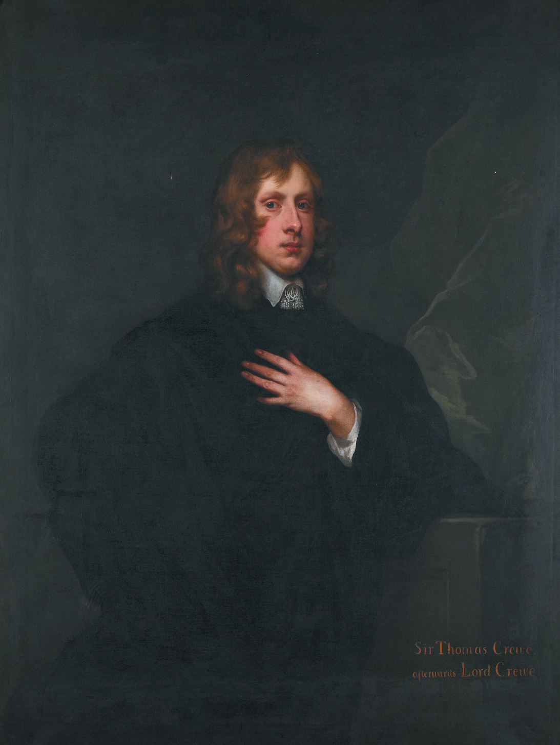 Thomas Crew, 2nd Baron Crew of Stene (1624-1697) oil on canvas 152.5 x 122 cm inscribed b.r.: Sir Thomas Crewe. / afterwards Lord Crewe